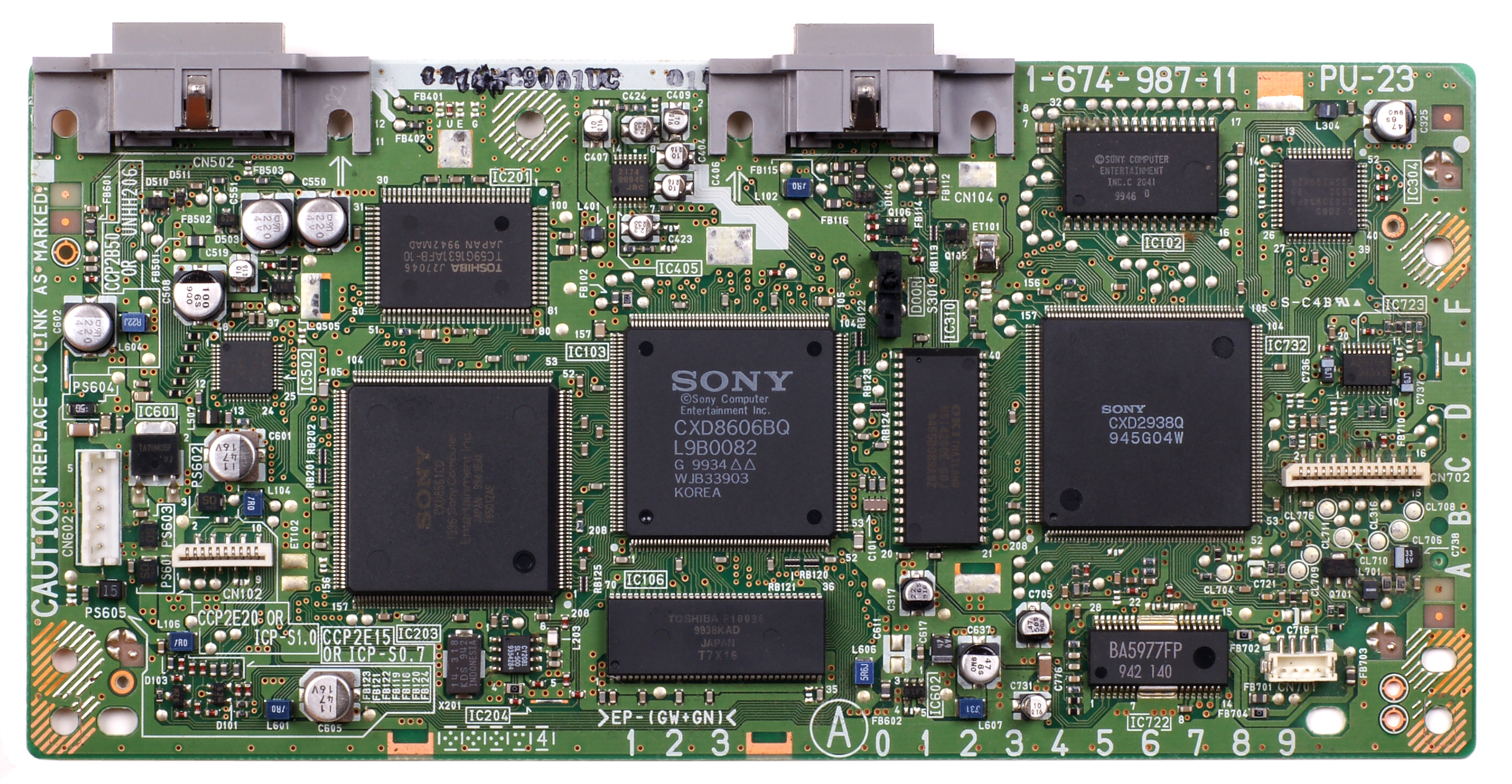 A US PlayStation motherboard, from a model SCPH-9001. Almost half the size of the original board and the last revision before switching to the PSone model.